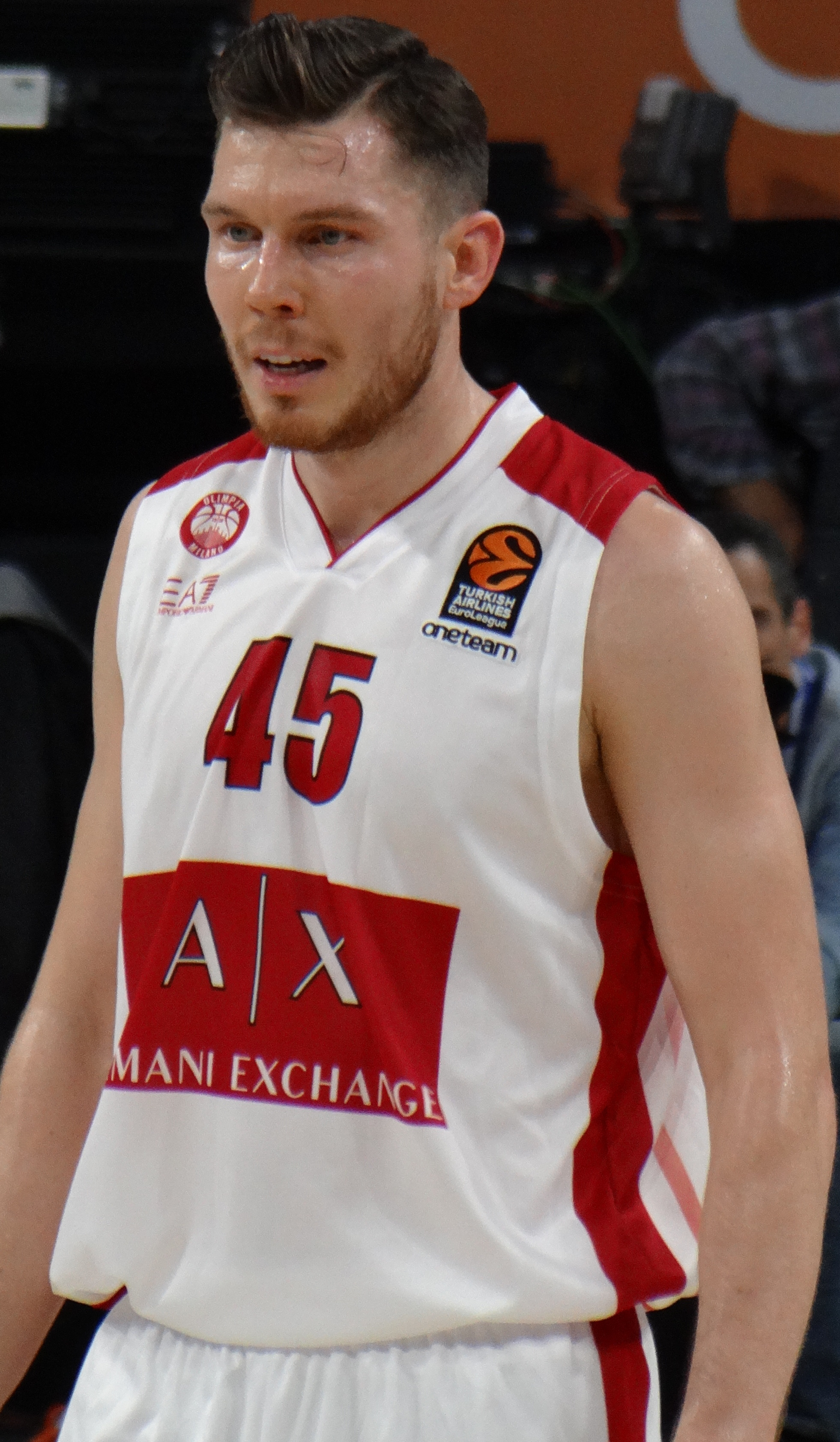 Dairis Bertāns 45 AX Armani Exchange Olimpia Milan 20171130